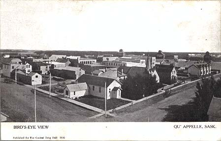 Bird's-eye view, Qu'Appelle, Sask. including former Church of England pro-cathedral